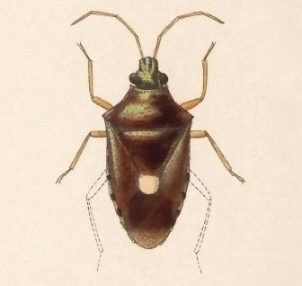 Biologia Centrali-Americana - Tynacantha splendens Cut-out from original (Biologia Centrali-Americana (8272540494).jpg) shown below